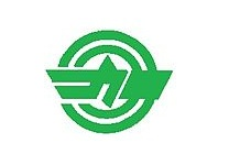 Flag of Kasamatsu Gifu